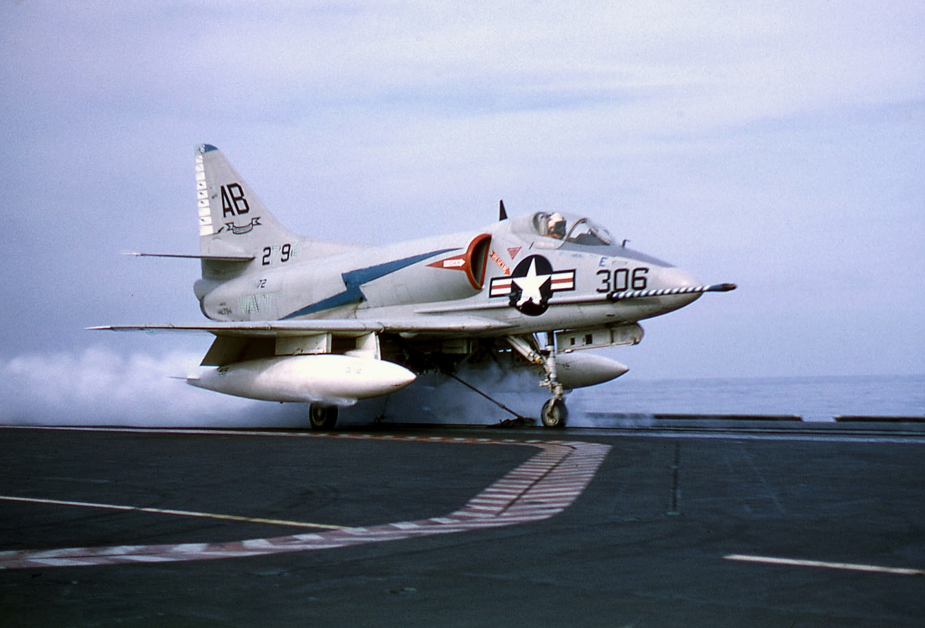 A U.S. Navy Douglas A4D-2 Skyhawk (BuNo 142794) from Attack Squadron VA-72 Hawks being launched from the aircraft carrier USS Franklin D. Roosevelt (CVA-42), in May 1959. VA-72 was assigned to Carrier Air Group 1 (CVG-1) aboard the FDR during that carrier's deployment to the Mediterranean Sea from 13 February to 1 September 1959.